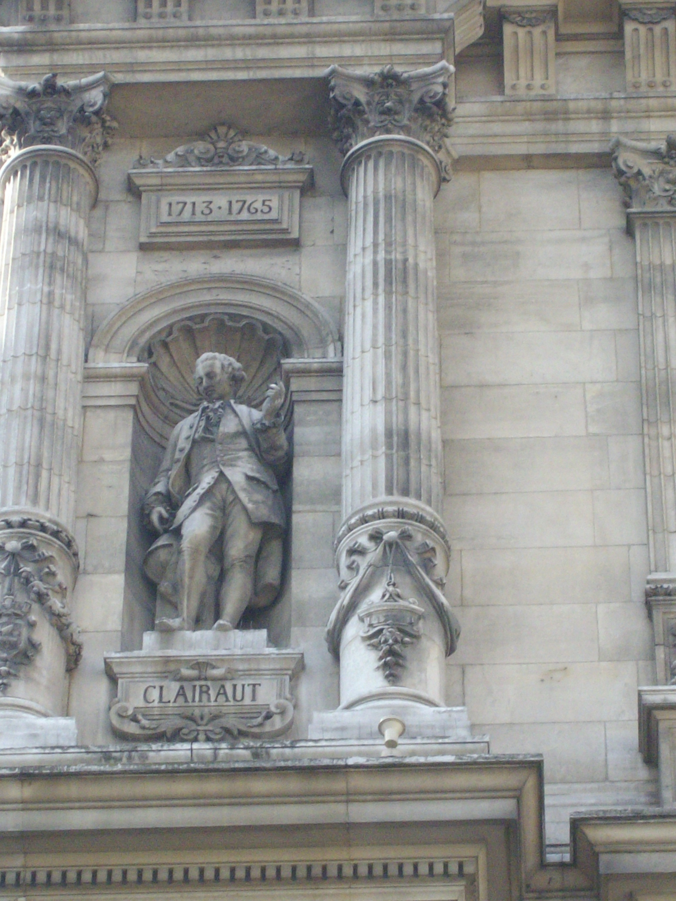 Statues of the City Hall in Paris, France